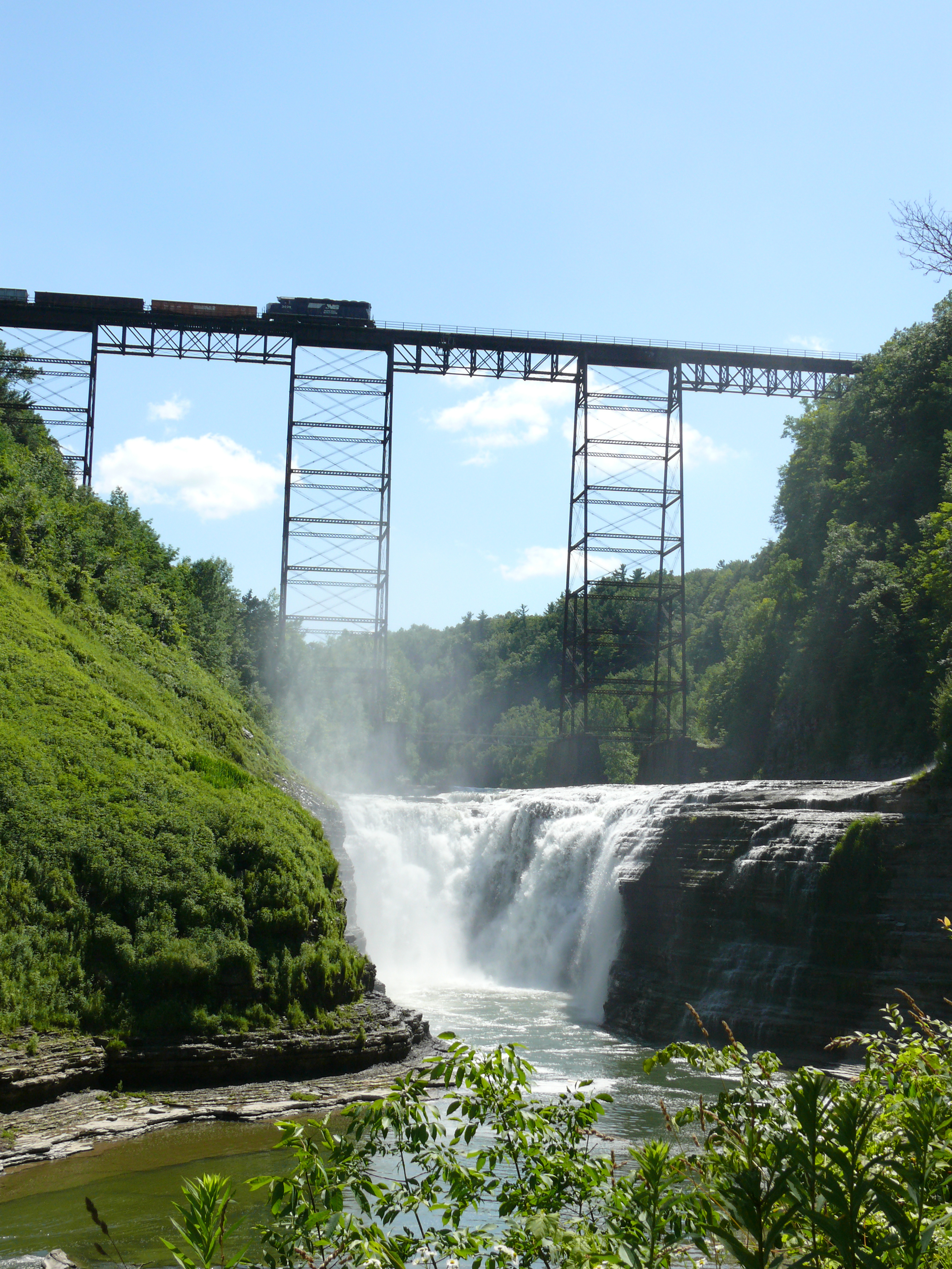 Upper Falls in Letchworth State Park, Portage Bridge in the background.